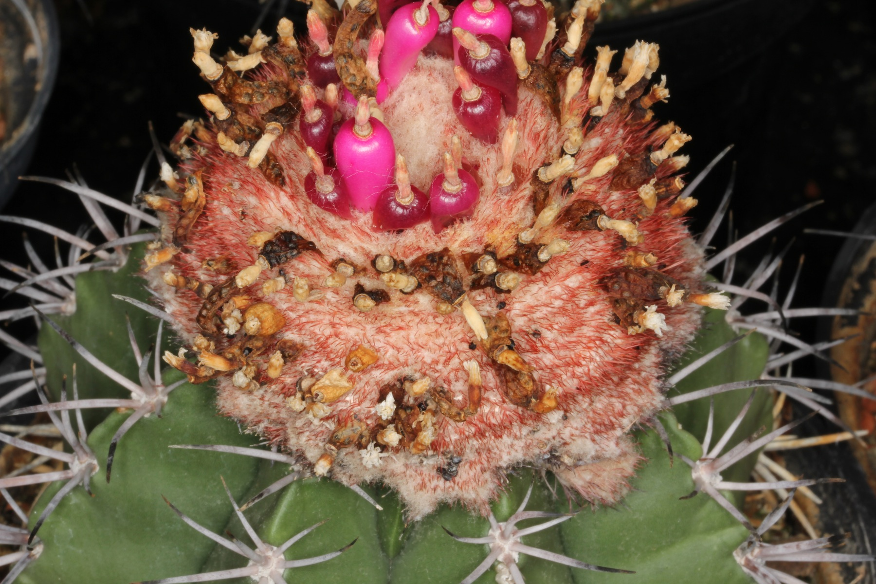 Melocactus violaceus